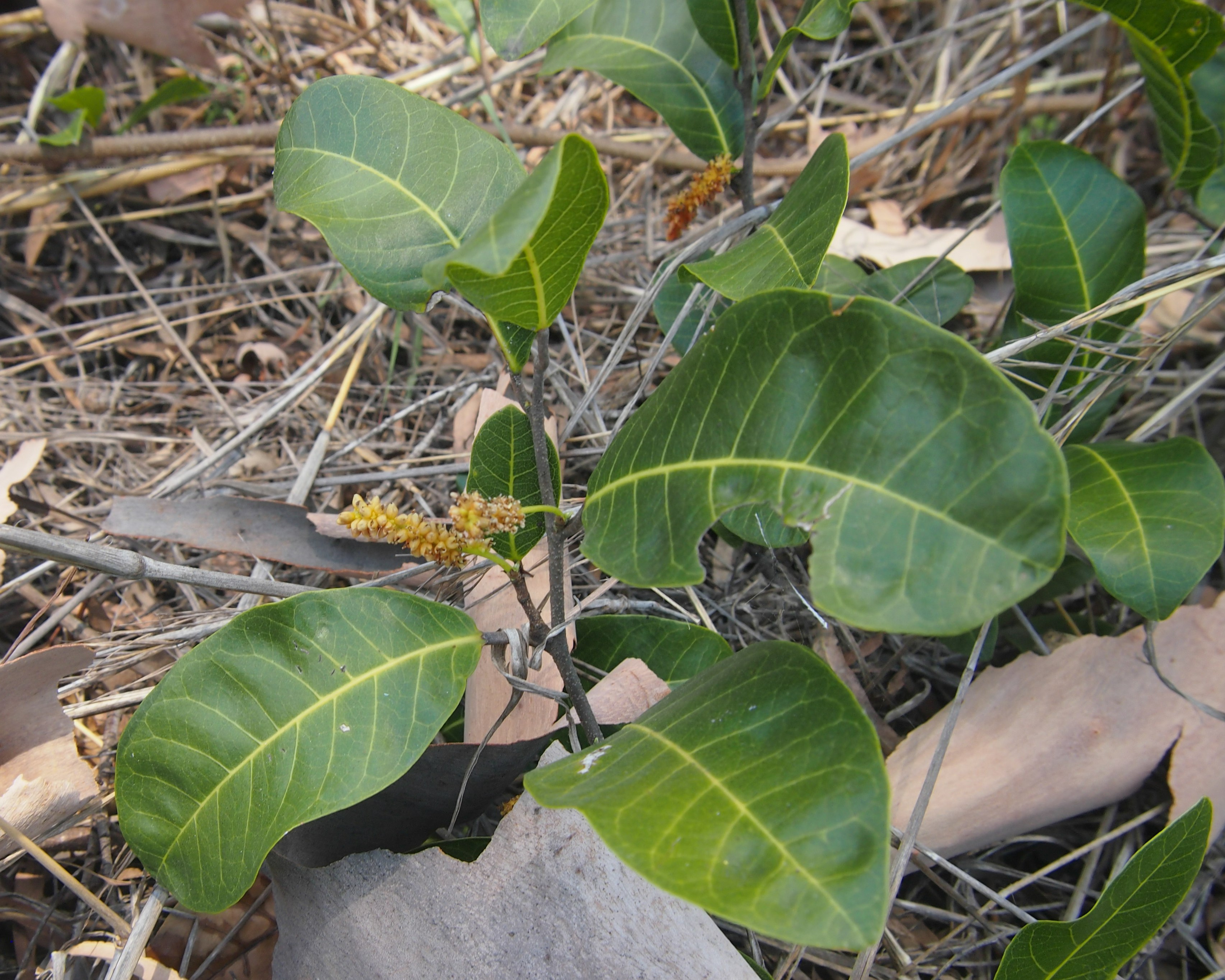 Trophis scandens foliage and flowers